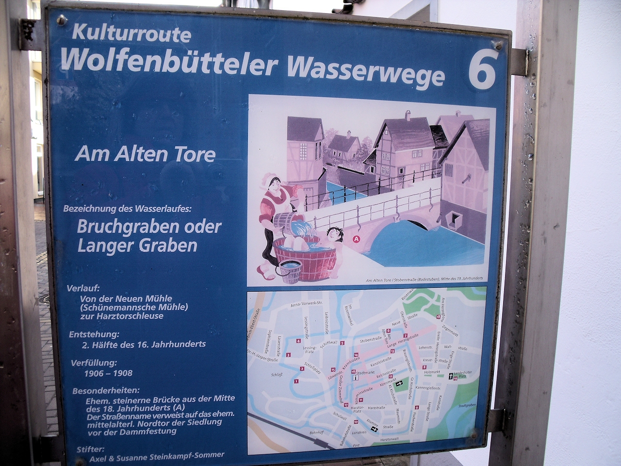 Information board Wolfenbüttel Waterways board 6 (At the Old Gate)